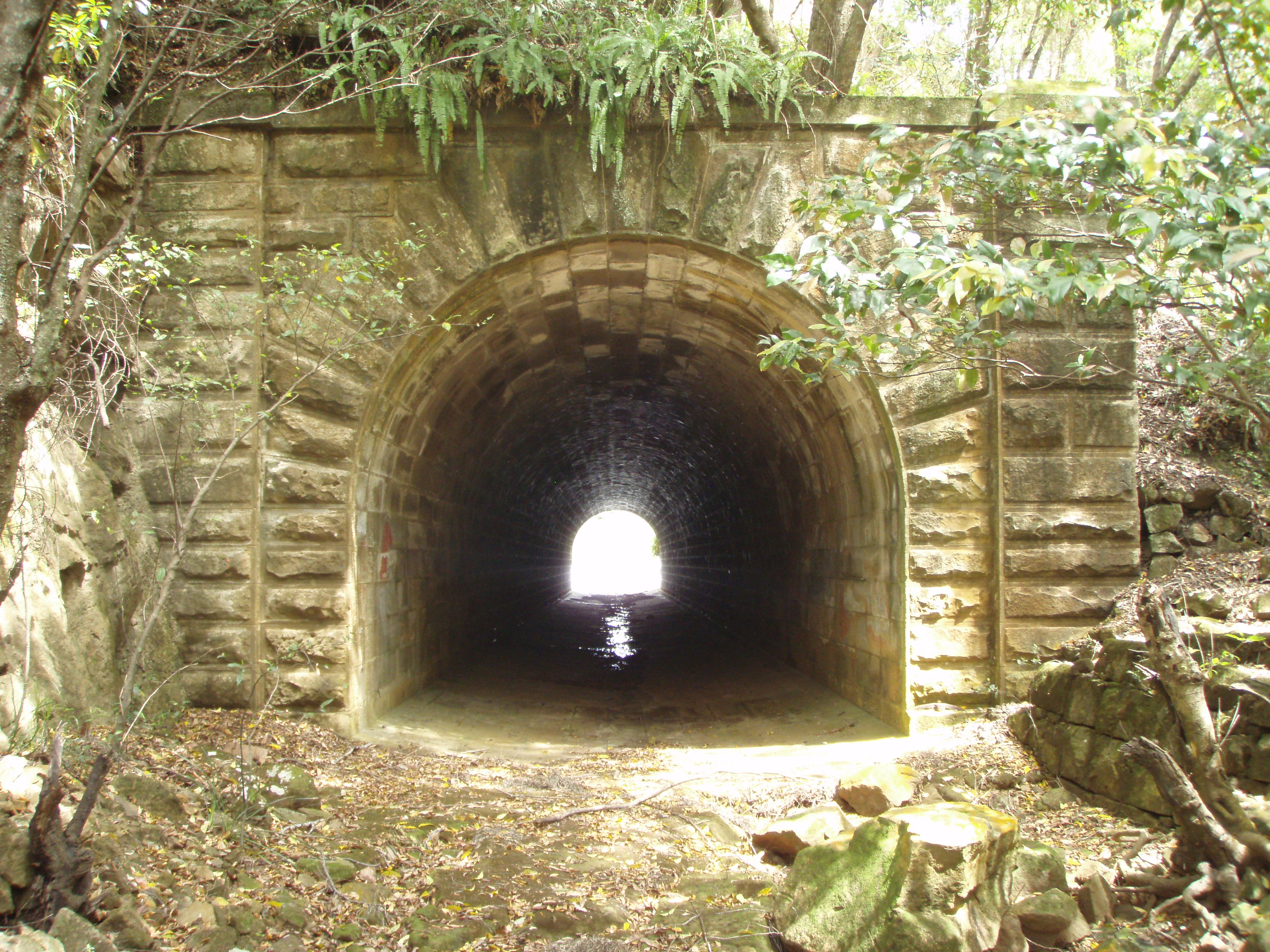 Northern side of the Mullet Creek culvert beneath the railway embankment on the southern approach